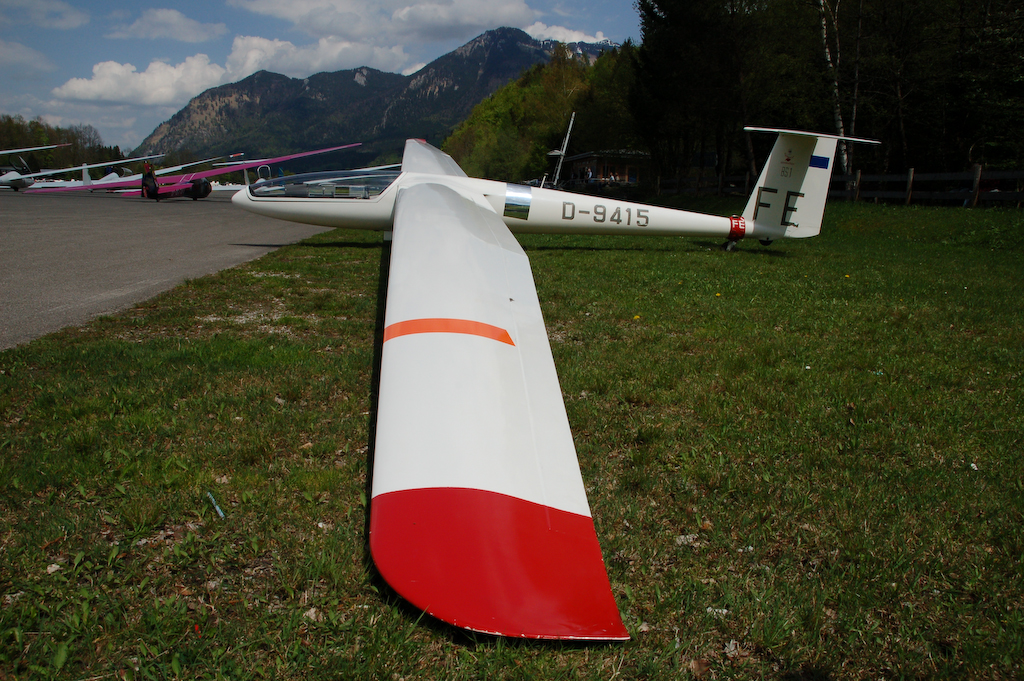 Glasfluegel BS-1 in Unterwoessen